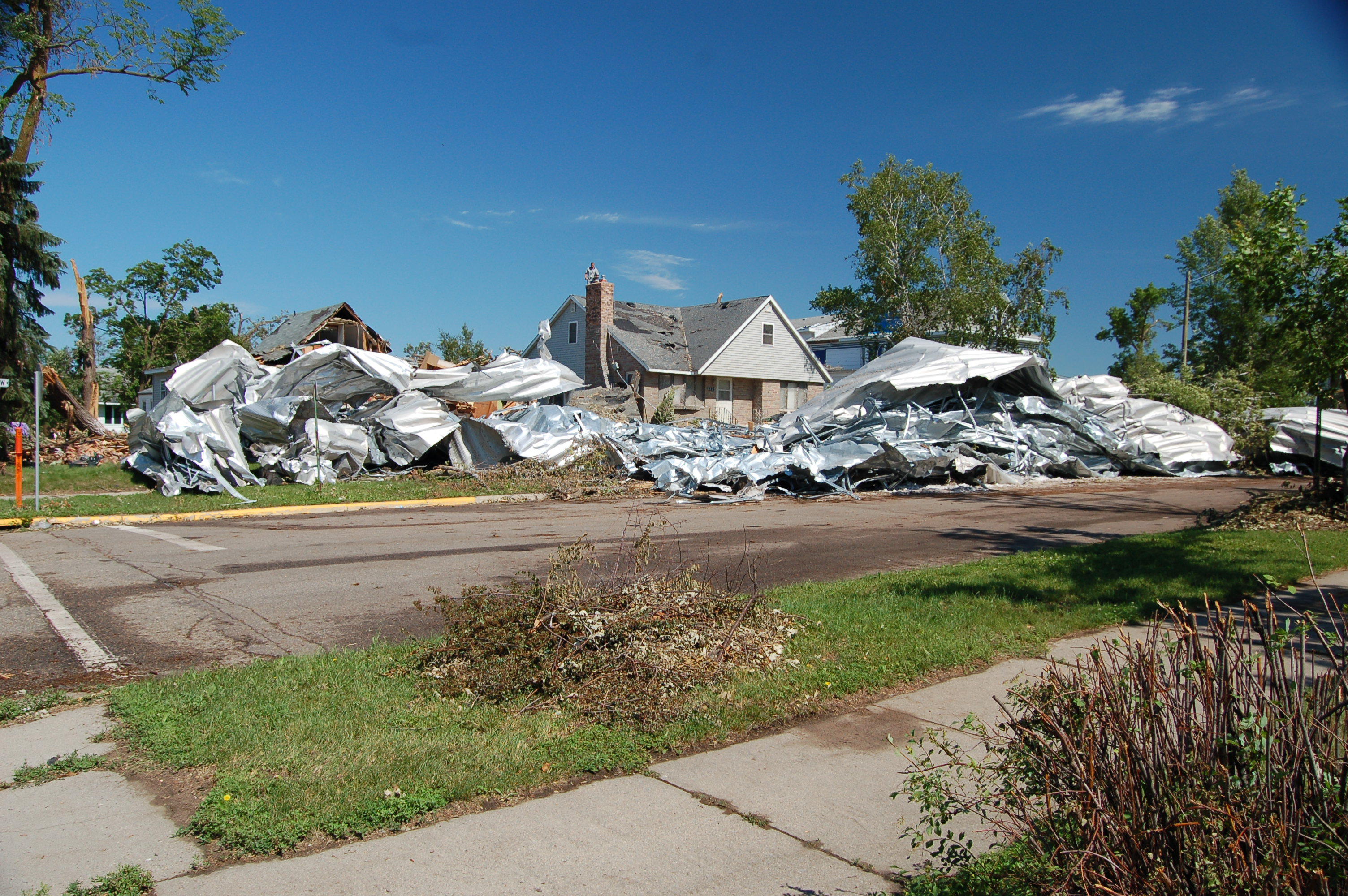 Wadena, MN, June 22, 2010 -- The metal roof of the city community center was twisted and blown four city blocks when the EF4 tornado struck on Jun 17, 2010. Local, state and federal agencies have conducted Preliminary Damage Assessments (PDA) to determine eligibility for federal assistance. FEMA/Michael Mancino